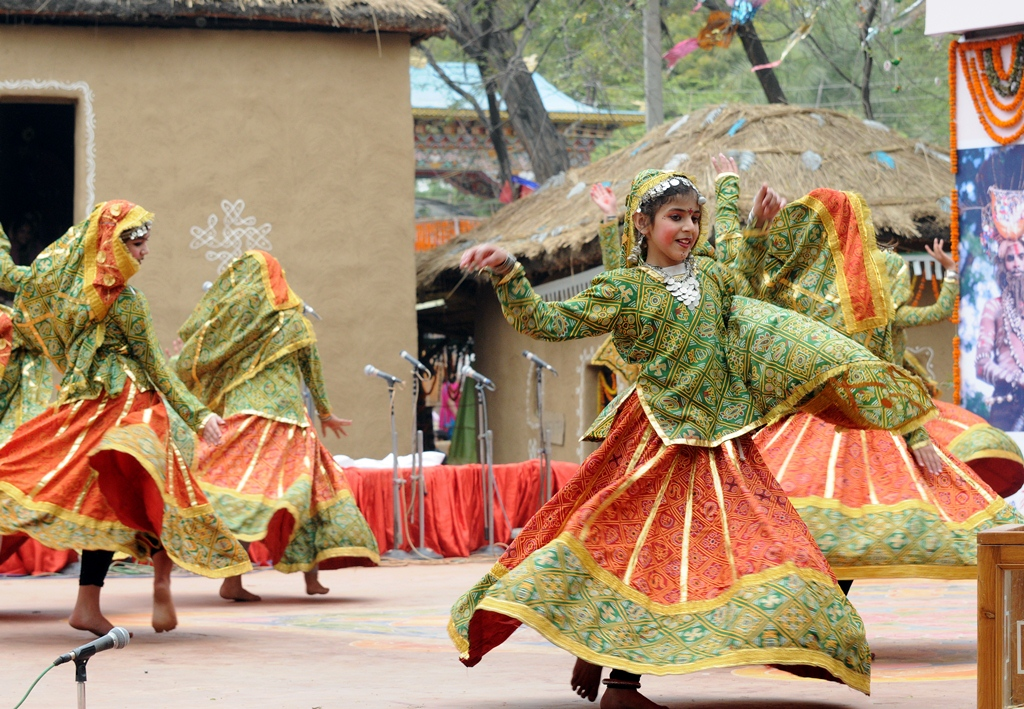 School girls performing Rakasthani folk dance at Surajkund Crafts Fair, near Delhi.